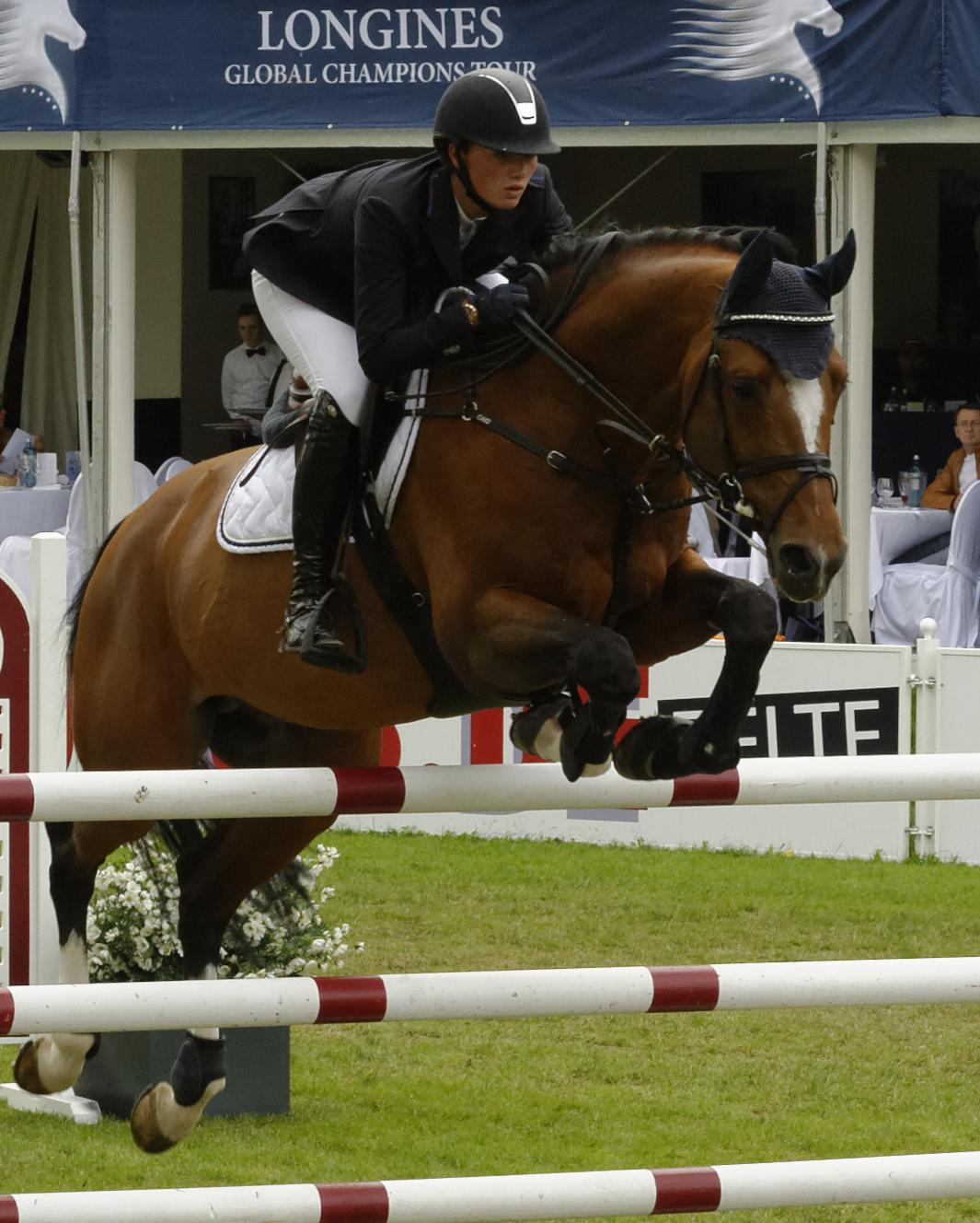 Internationales Pfingstturnier Wiesbaden 2013: Angelina Herröder mit Copasetic The making of this document was supported by the Community-Budget of Wikimedia Germany.